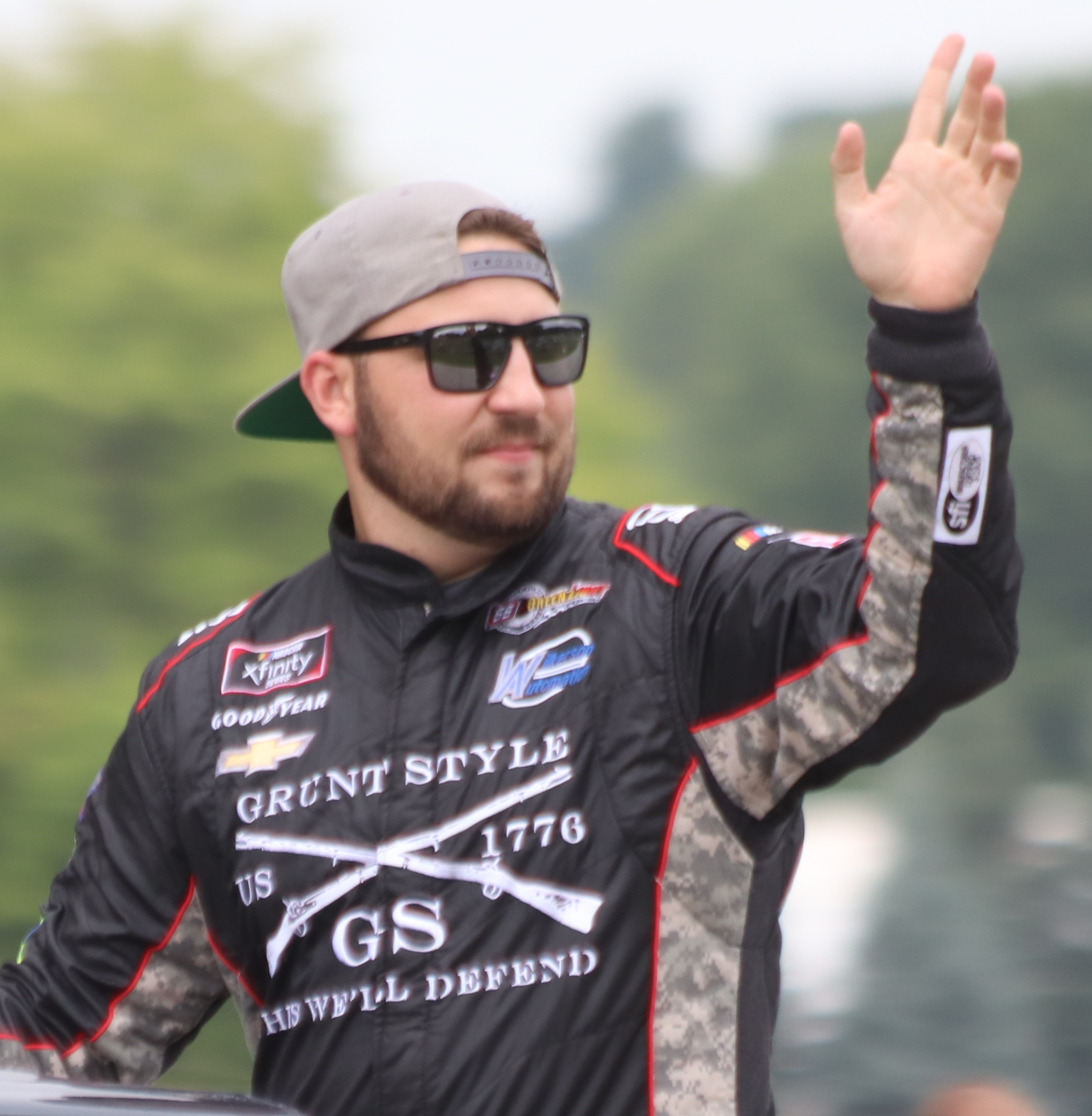 NASCAR Xfinity Series driver Spencer Boyd waves to fans at the 2018 Road America race.